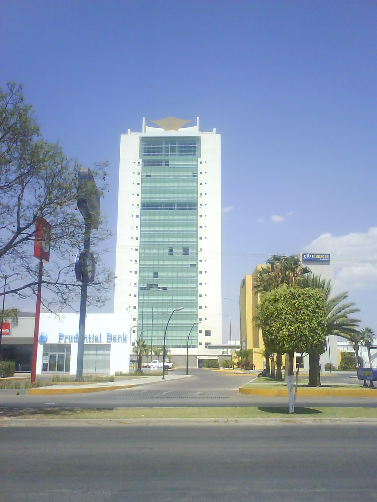 Building of the city of Irapuato, situated in the zone Cibeles, a zone of recent creation and big commercial growth, turístico and habitacional.